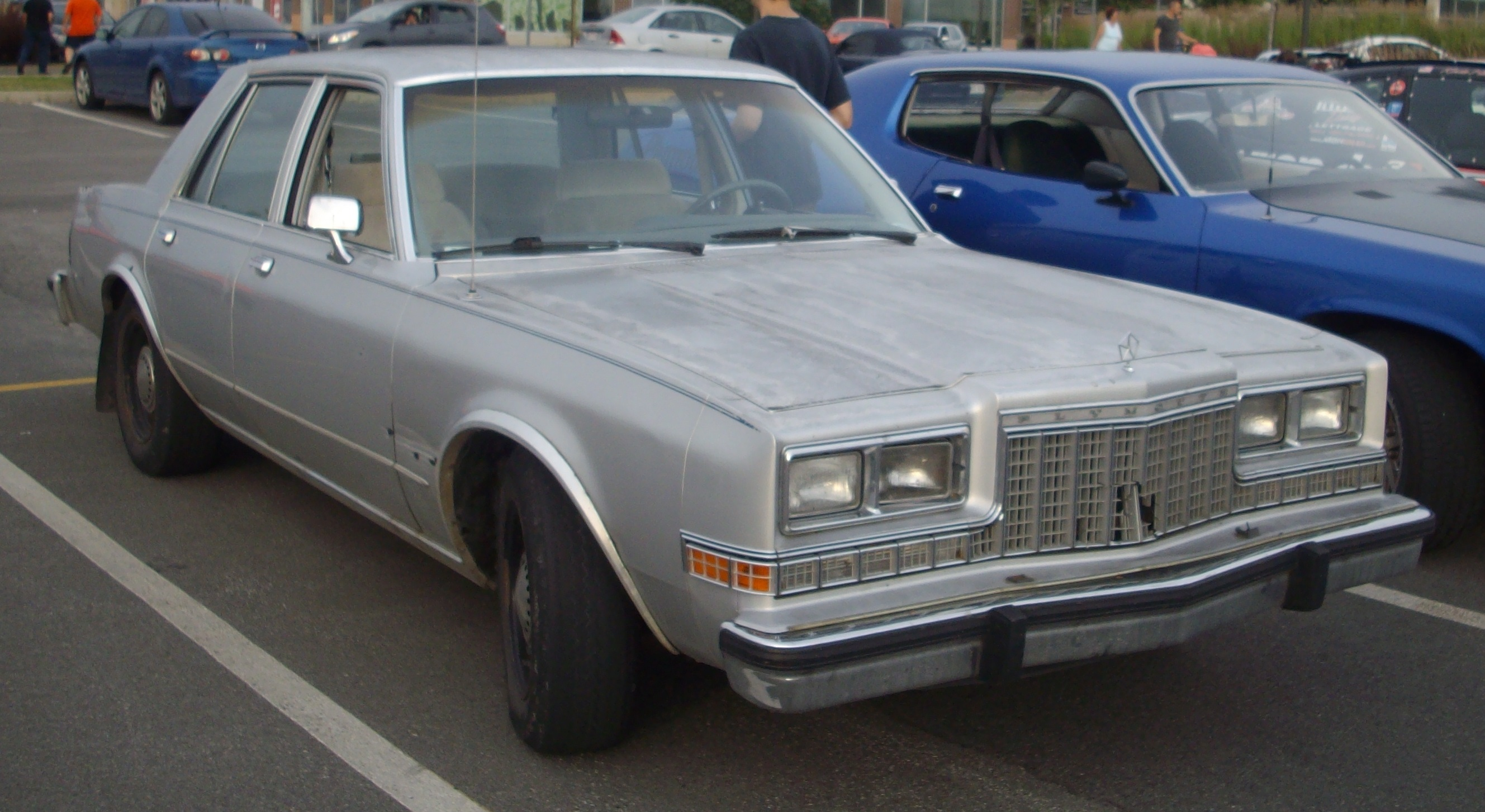 Plymouth Caravelle photographed in Laval, Quebec, Canada at Les chauds vendredis.